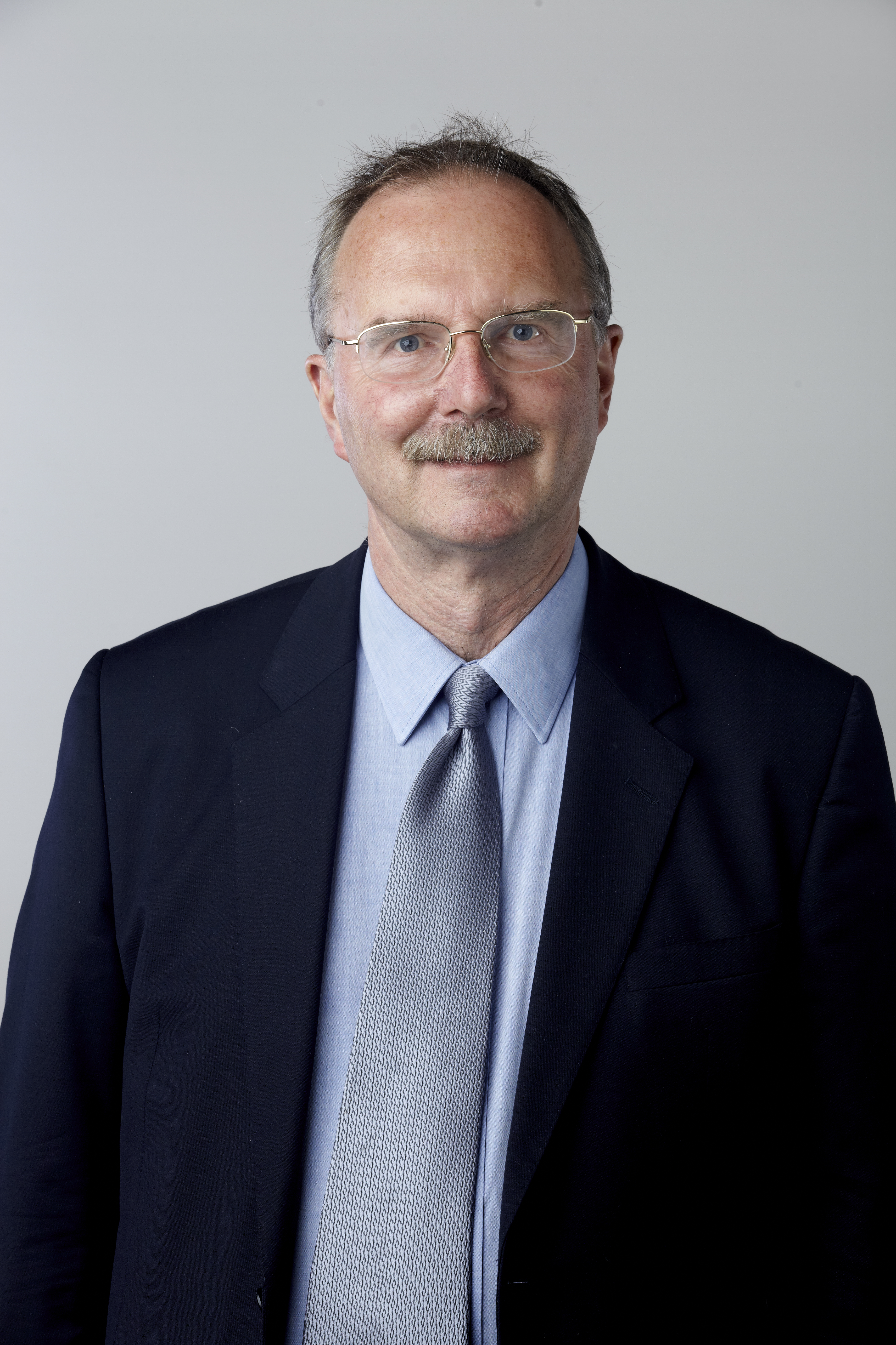 Professor Martin Johnson FMedSci FRS, Royal Society Fellow elected 2014 Attribution: The Royal Society